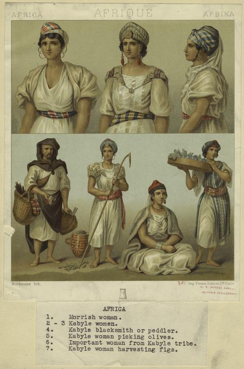 Original Source: From Le costume historique : types principaux du vêtement et de la parure, rapprochis de ceux de l'intérieur de l'habitation dans tous les temps et chez tous les peuples. (Paris : Firmin-Didot, 1876-1888) Racinet, A. (Auguste) (1825-1893), Author.